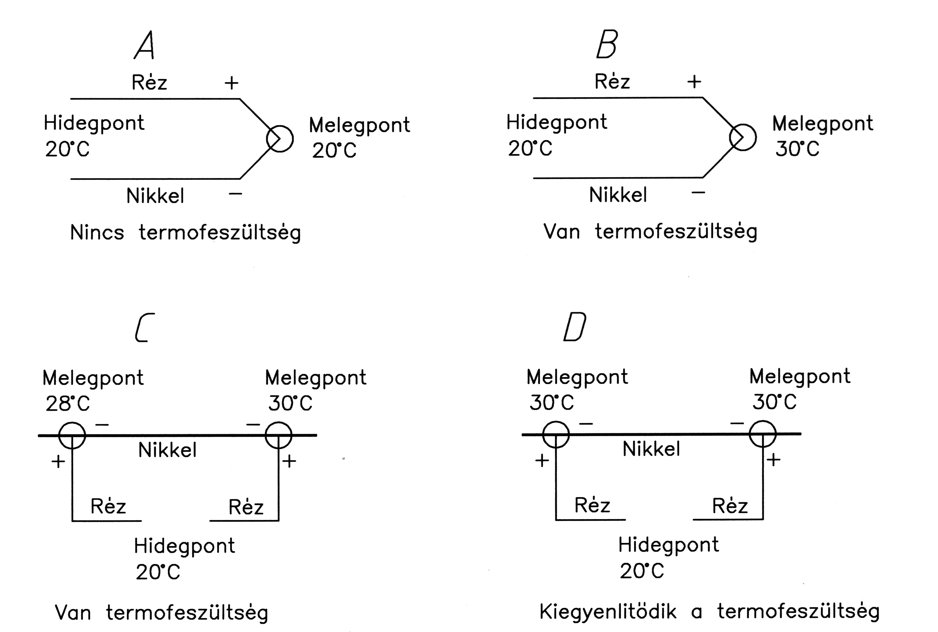 Formation of thermo (Emf) at badly choosen measuring arrangement